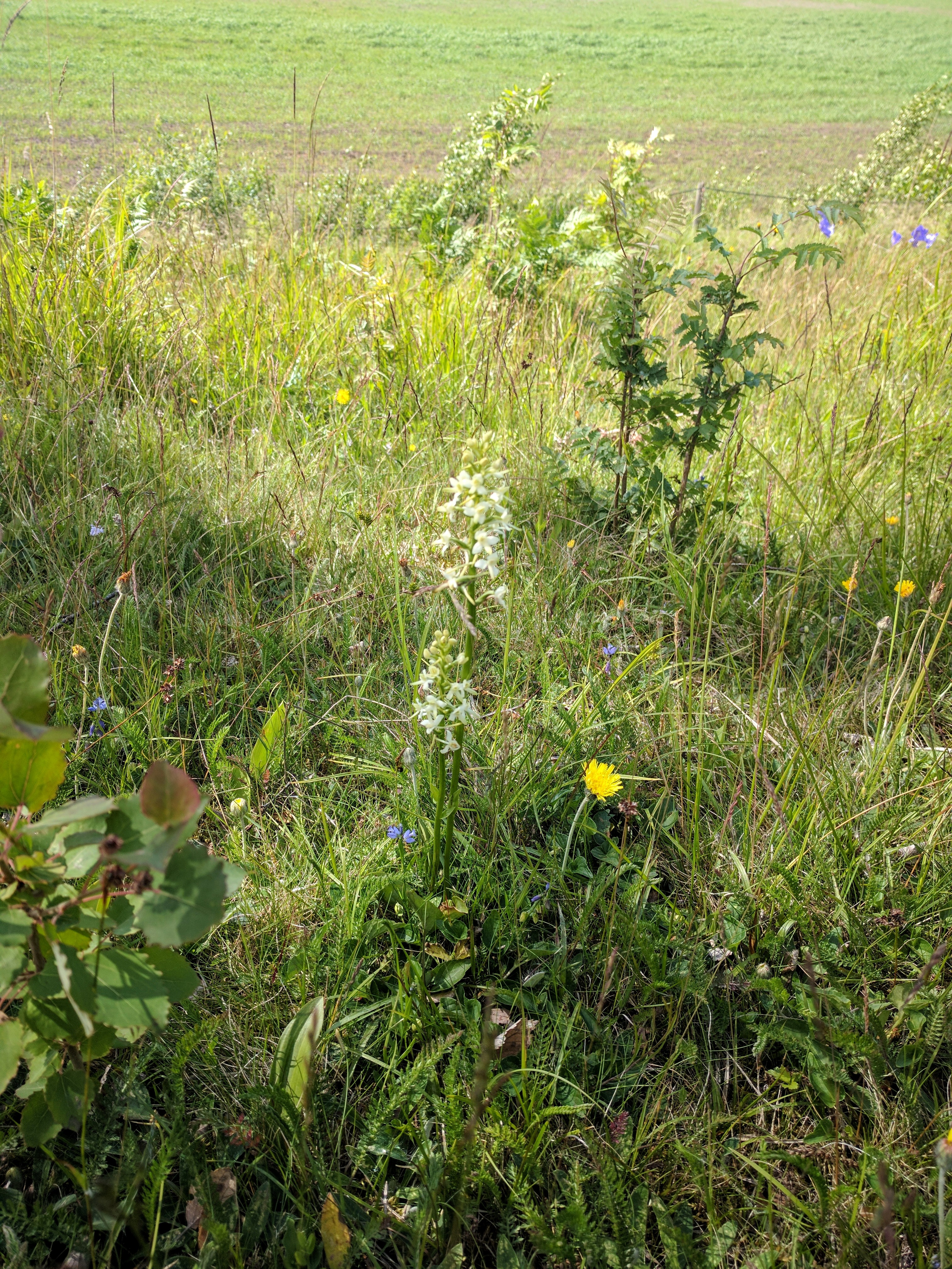 Platanthera bifolia at Jägernåsen, June 2017